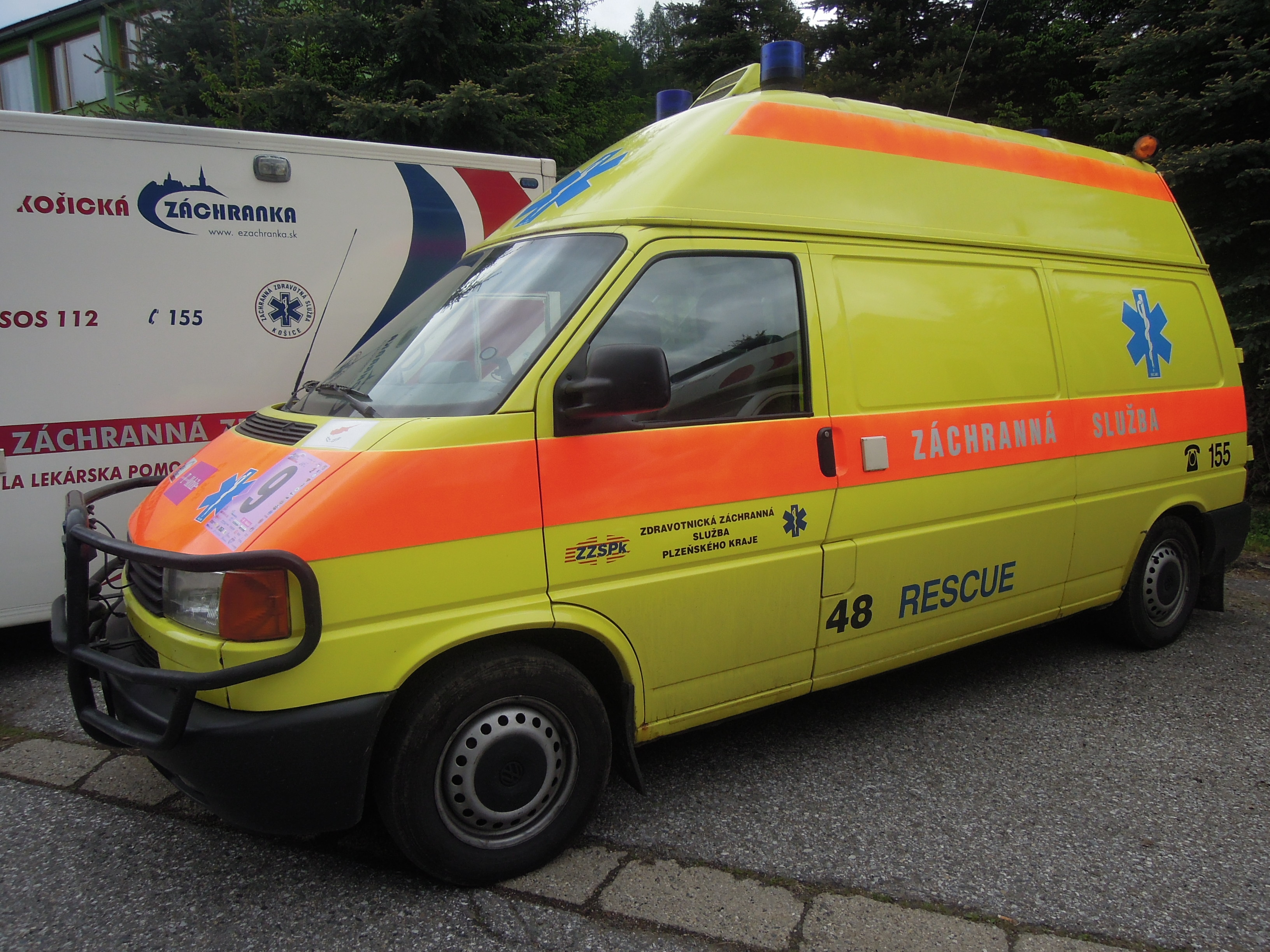 Volkswagen Transporter T4 ambulance of Zdravotnická záchranná služba Plzeňského kraje. Photo was taken during the international competition Rallye Rejvíz 2013 in Kouty nad Desnou, Olomouc Region, Czech Republic